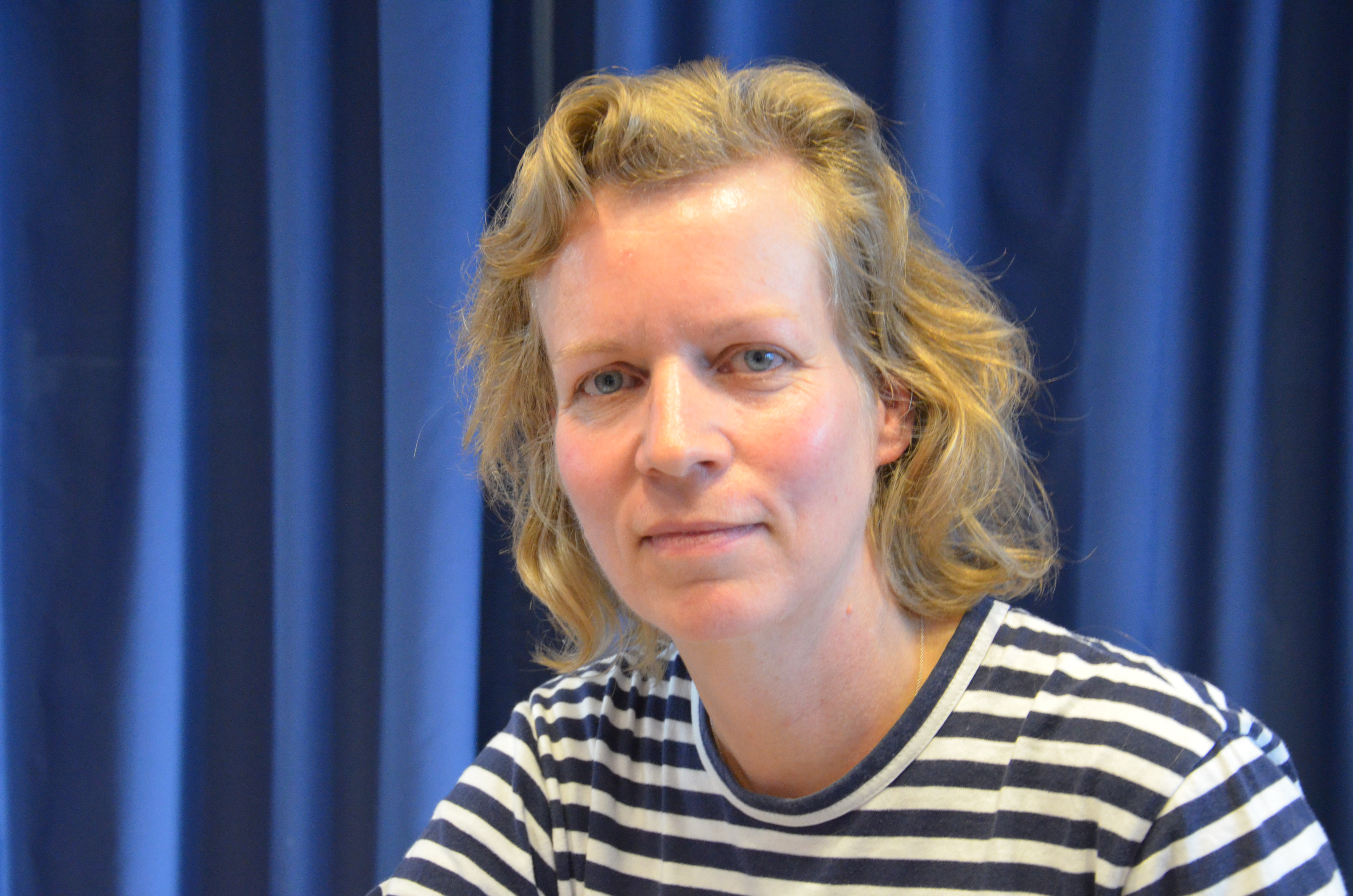 German artist Katharina Grosse, Vara Sweden May 25, 2012